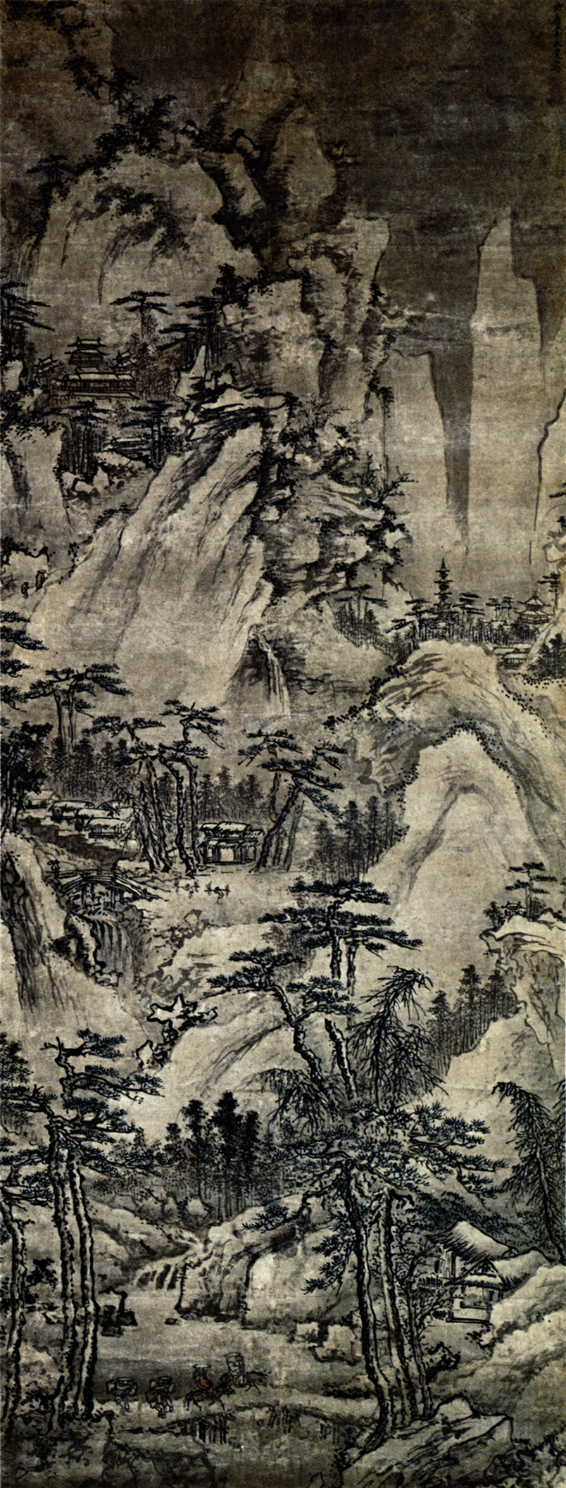 Traveling in Snowy Mountains, hanging scroll, color on paper, 244.2 x 92.9 cm. Located at the Lüshun Museum in Dalian China.